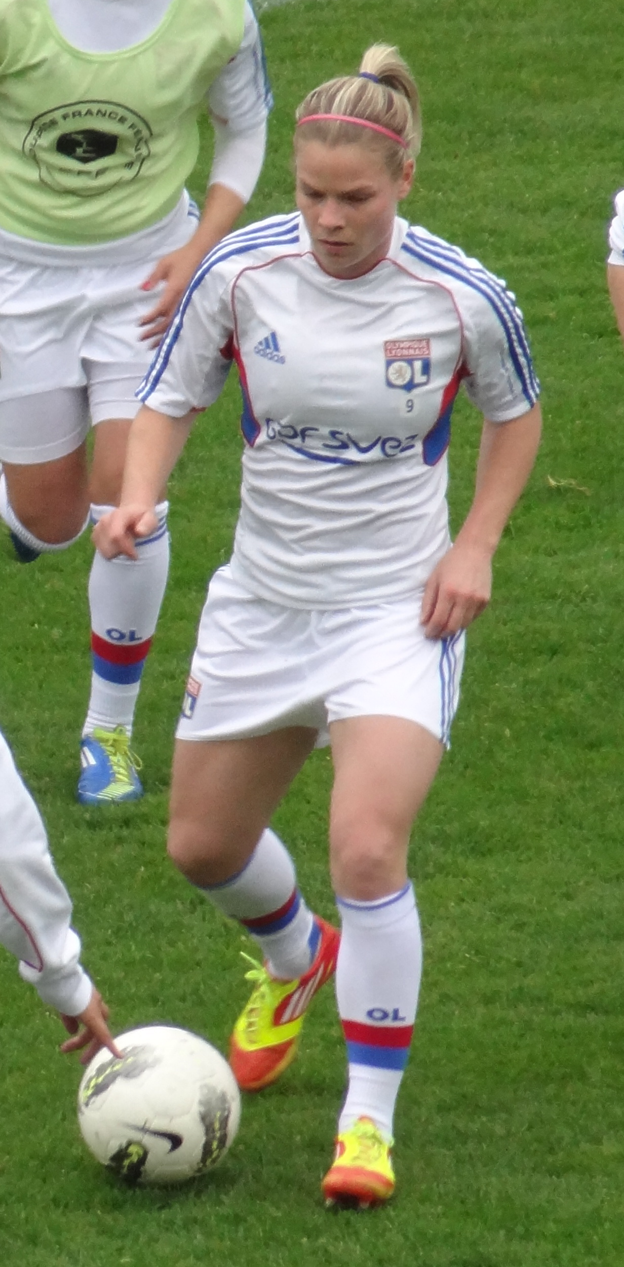 Eugénie Le Sommer (Olympique Lyonnais)